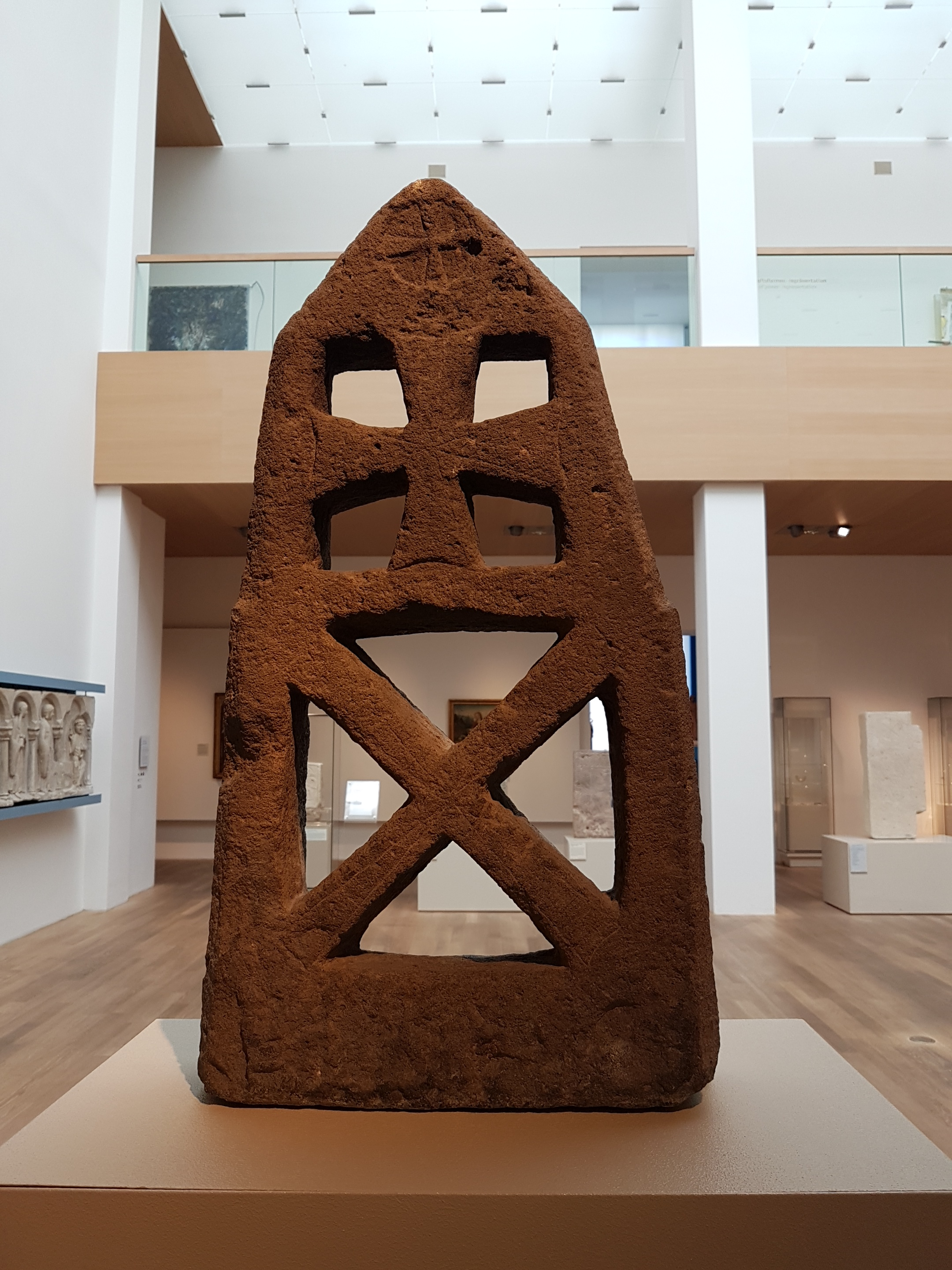 Early-Christian stele (7th c.) from Moselkern (Cochem) in the Rheinisches Landesmuseum in Bonn, Germany. The stone was found in 1915 in the churchyard of Moselkern. Its purpose is uncertain, perhaps it served as a grave marker.